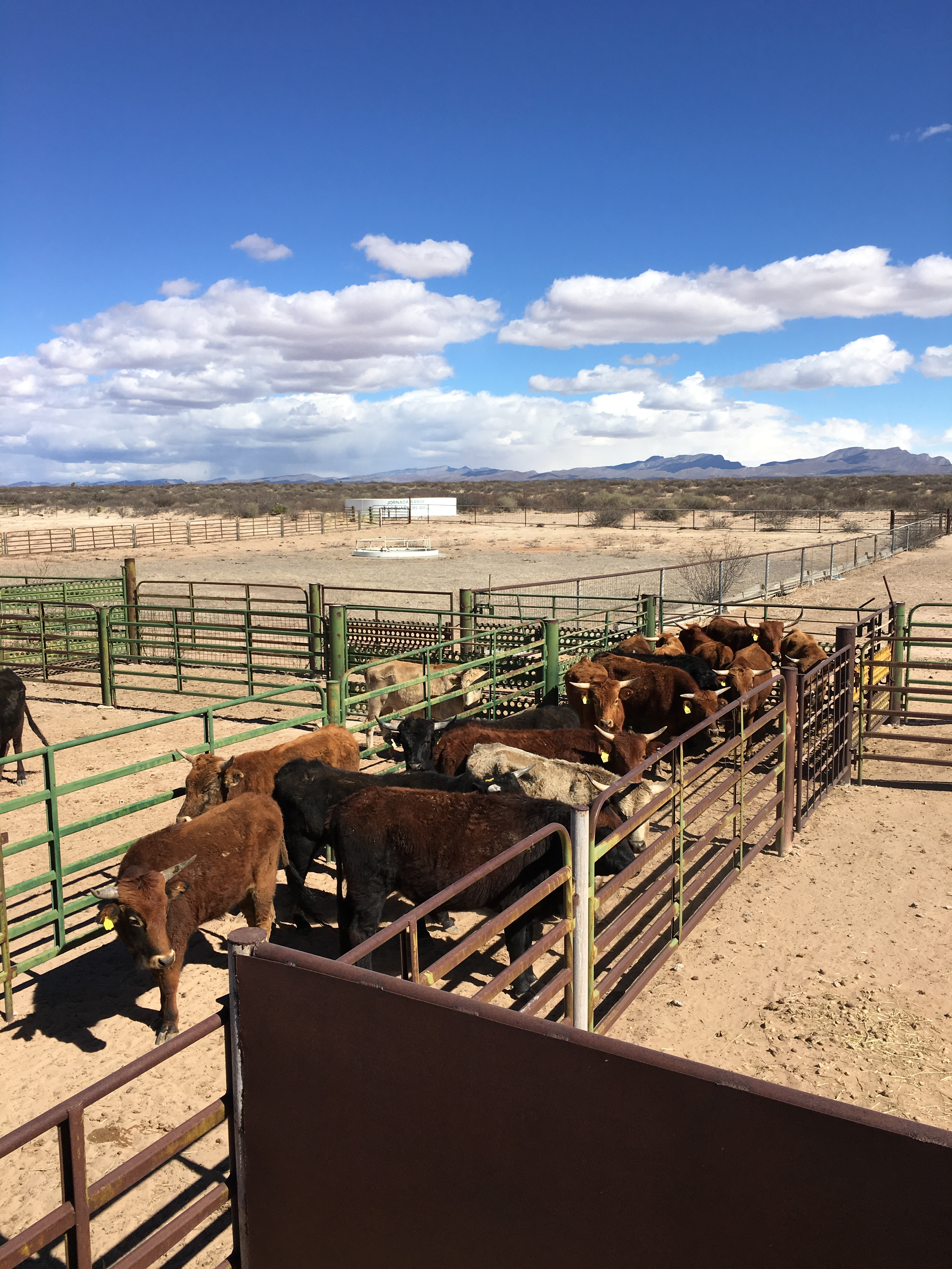 Waguli